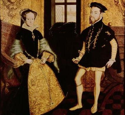 Portrait of king Felipe II. of Spain and his second spouse Queen Maria I. of England